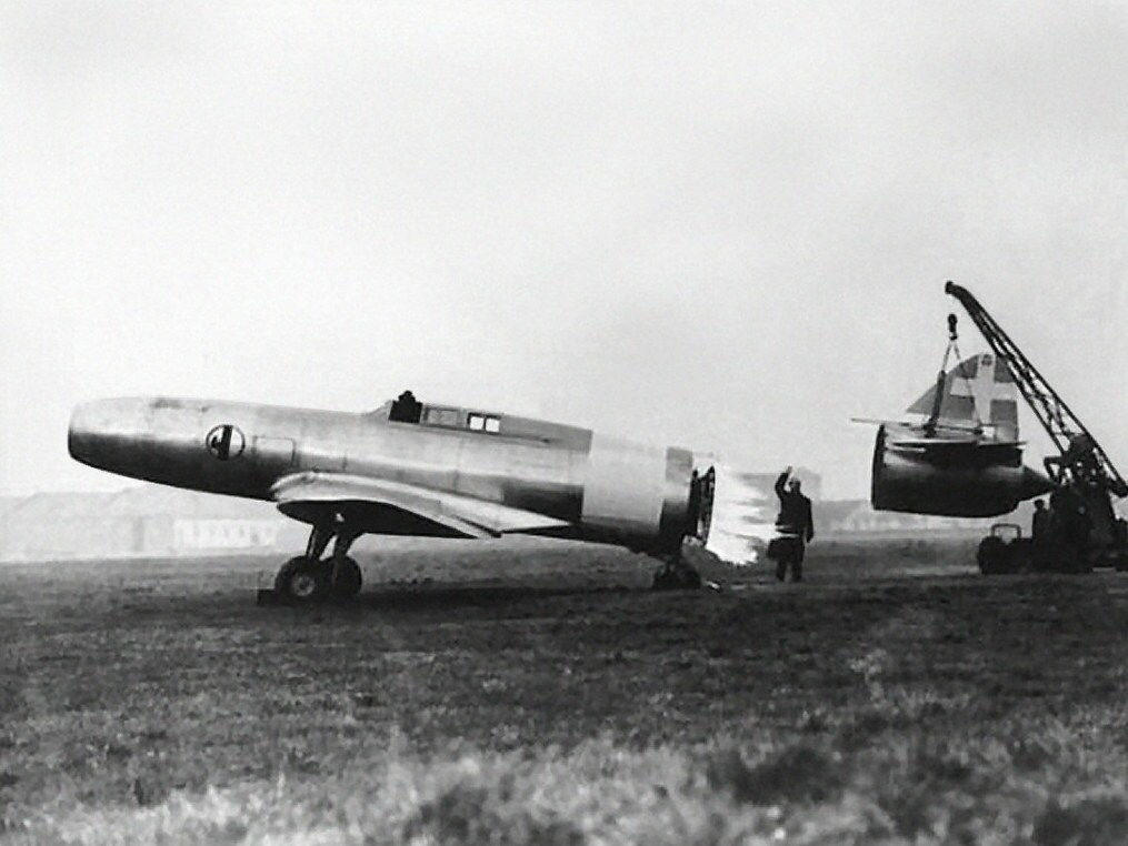 Testing the Campini Caproni's (CC-2) jet engine